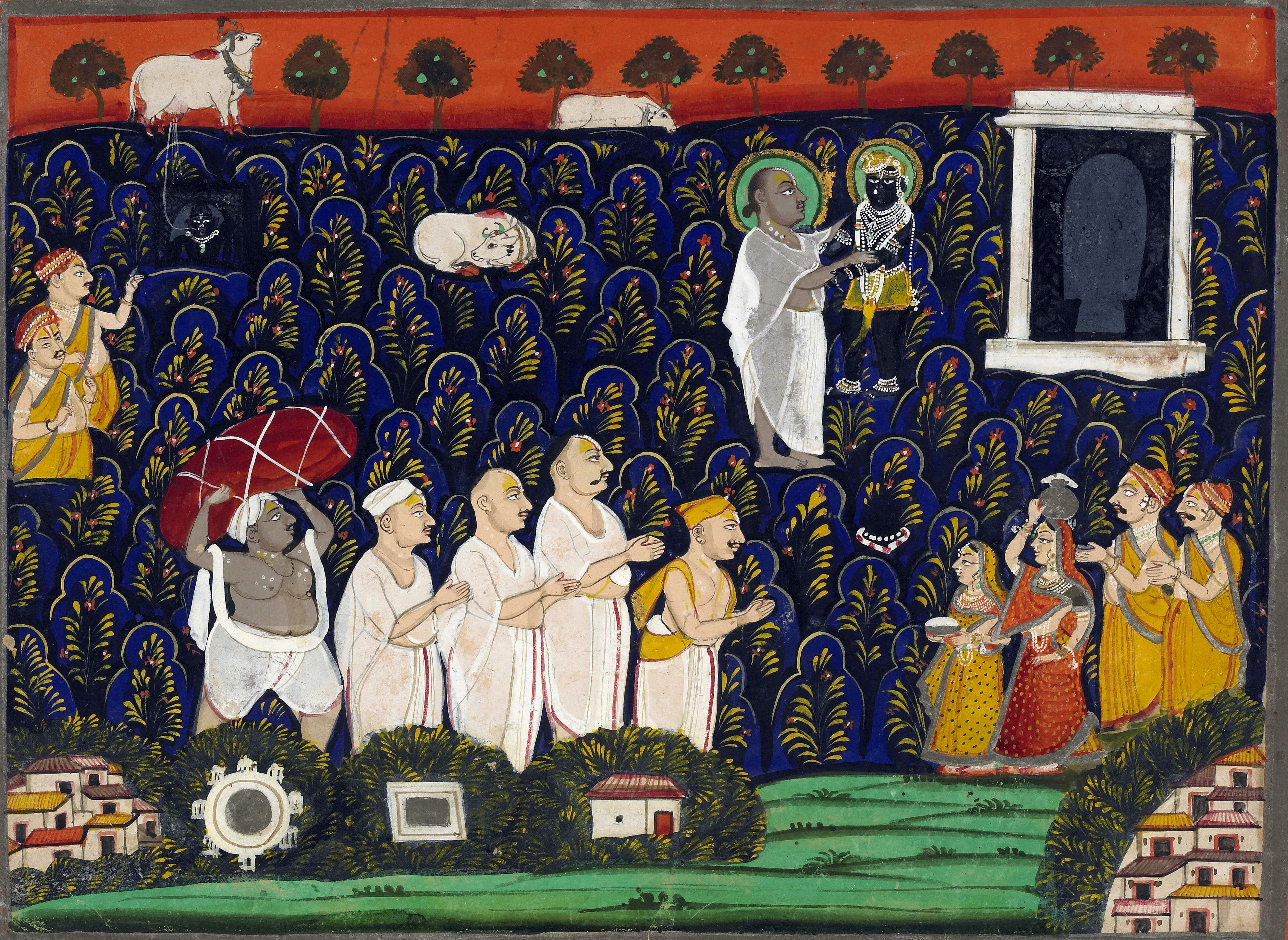 "The discovery and installation of the image of Sri Nathji. In the sacred landscape of Mount Govardhan, Vallabhacharya is shown meeting and honouring the image discovered on the mountain-side. In the top left-hand corner, the earlier part of the narrative is shown when the cow is seen lactating over the hidden image of the god. In the foreground are the local villagers of Vrindavan, and indeed the houses of the village and its circular tank. See Amit Ambal, 'Krishna as Shrinathji. Rajasthani Paintings from Nathdvara', Mapin 1987, p. 50-1."